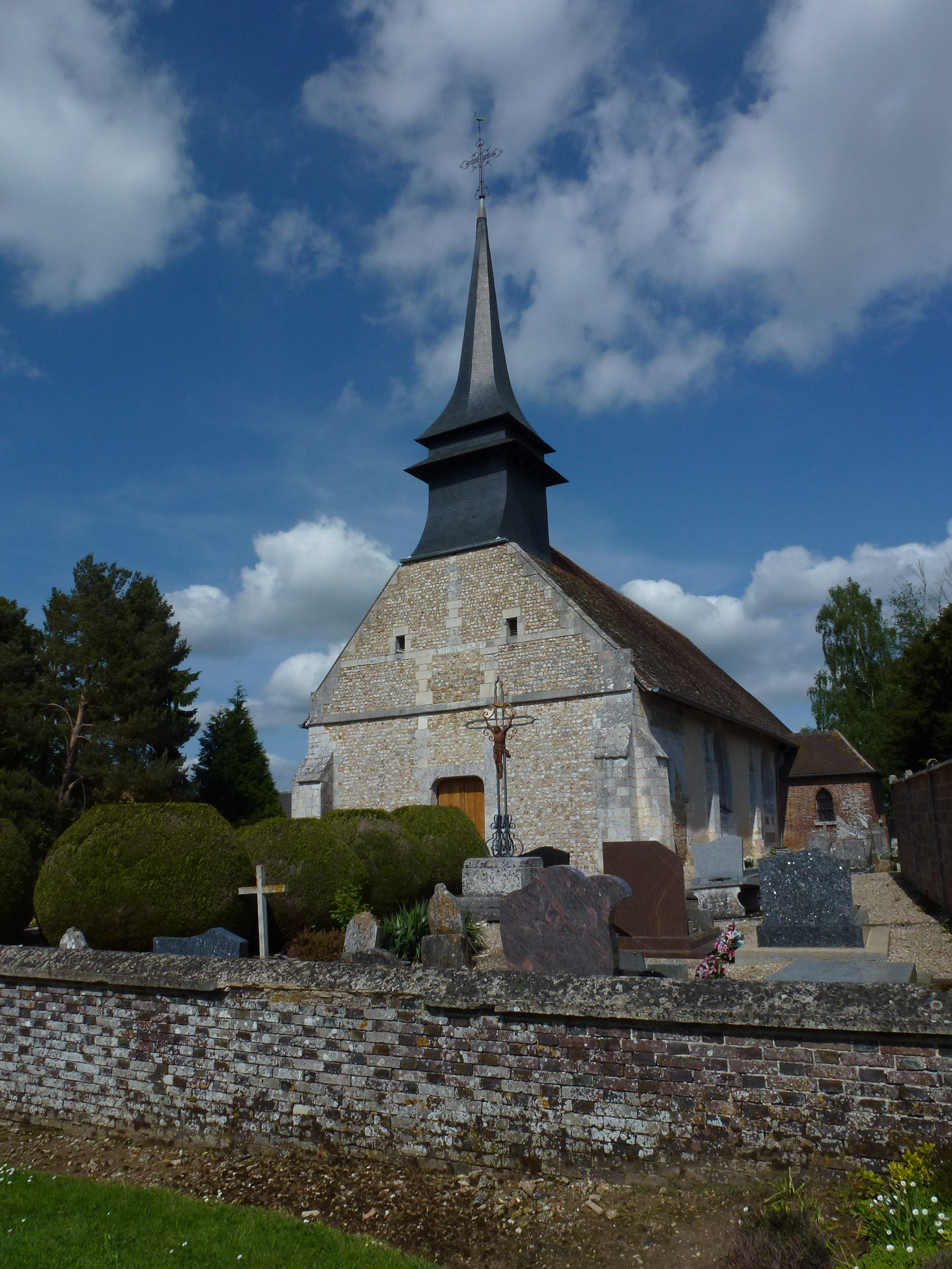 Sainte-Opportune-du-Bosc (Eure, Fr) église